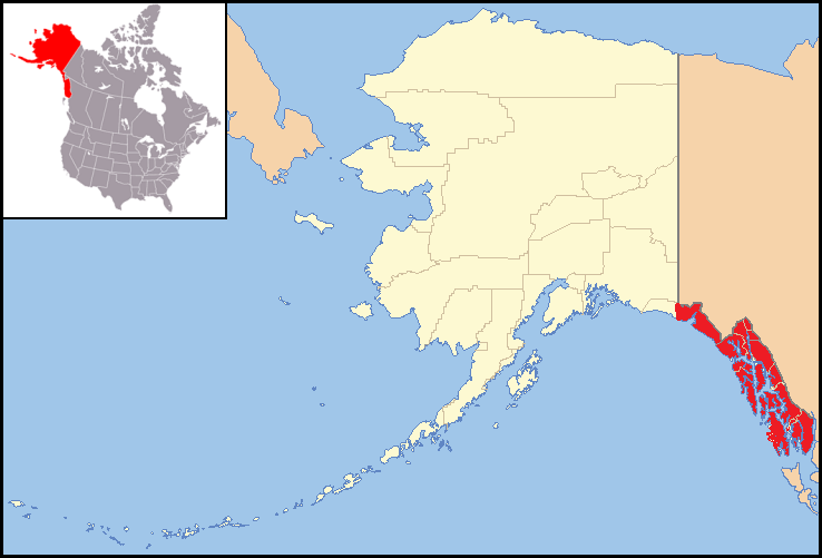 The Catholic Diocese of Juneau encompasses the peninsula of southeast Alaska.